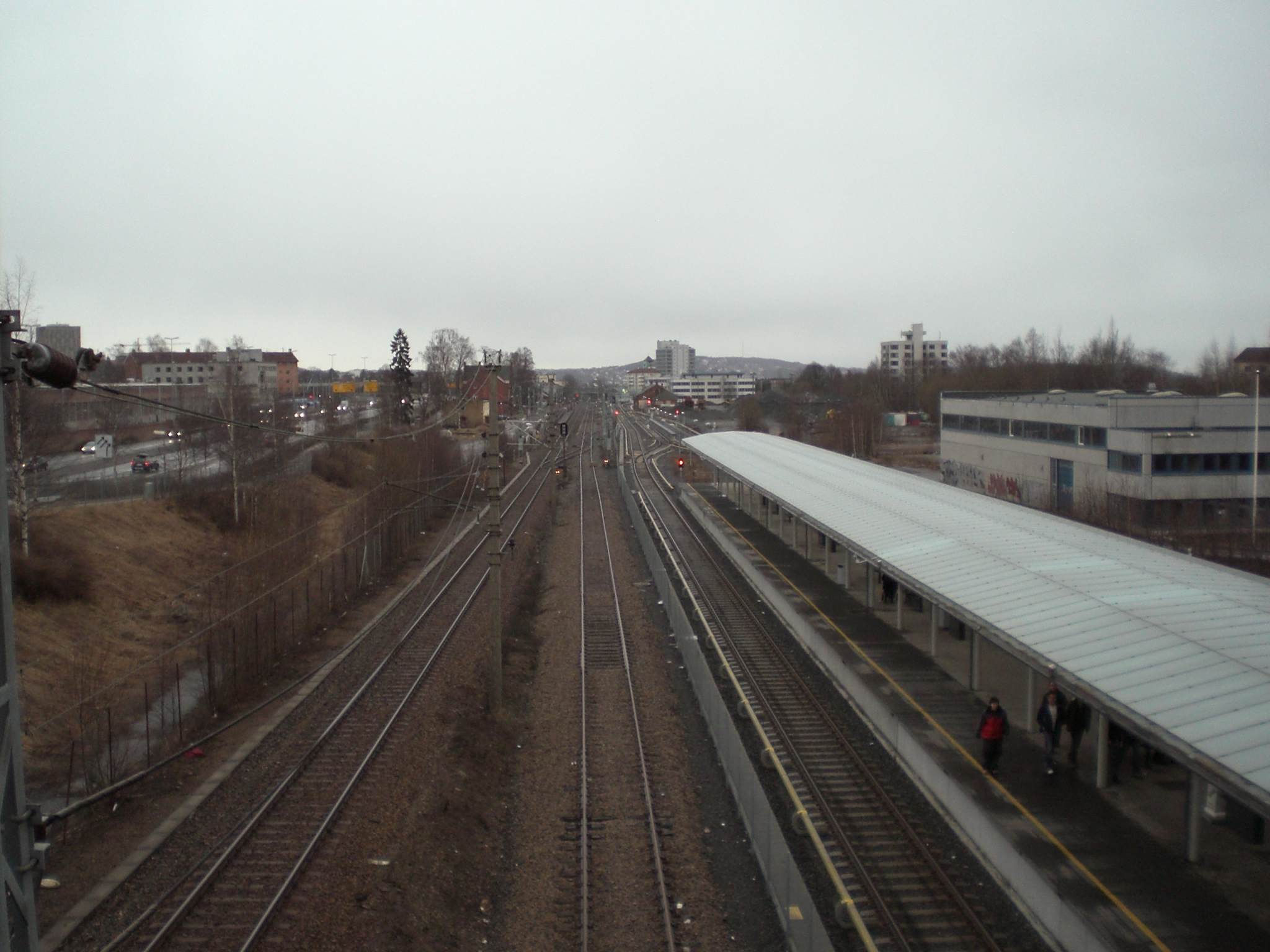 Gjøvikbanen and t-baneringen, seen from Storo, above the station